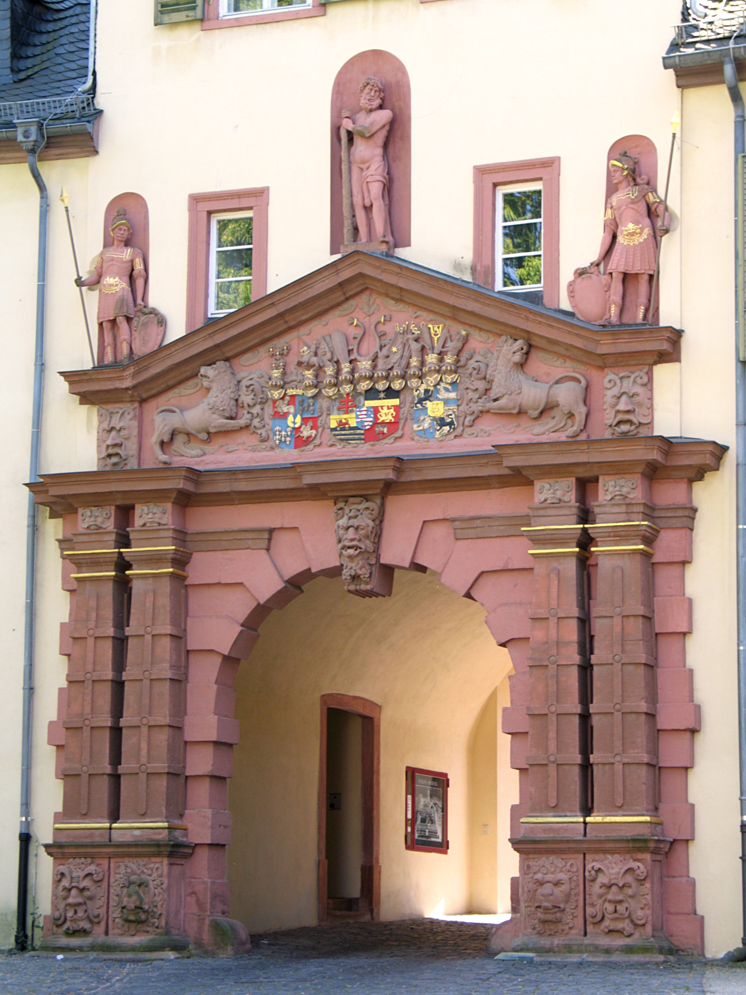 The lower gate of Bad Homburg castle with a baroque architrave. Bad Homburg vor der Höhe, Germany.